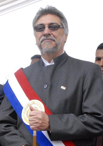 The President Fernando Lugo in Independence day fest, Asunción, Paraguay.